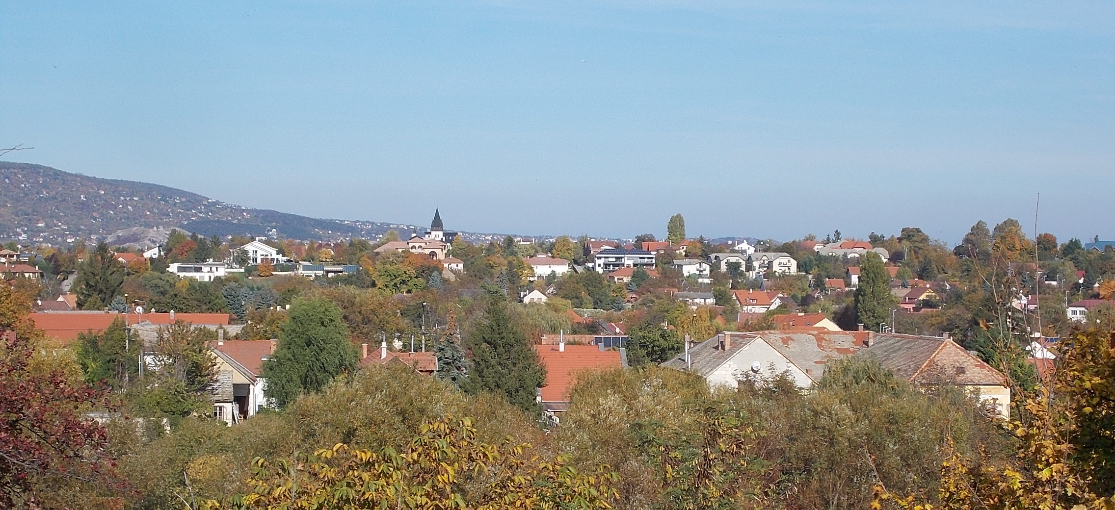 View from Calvary hill, Törökbálint, Pest County, Hungary.